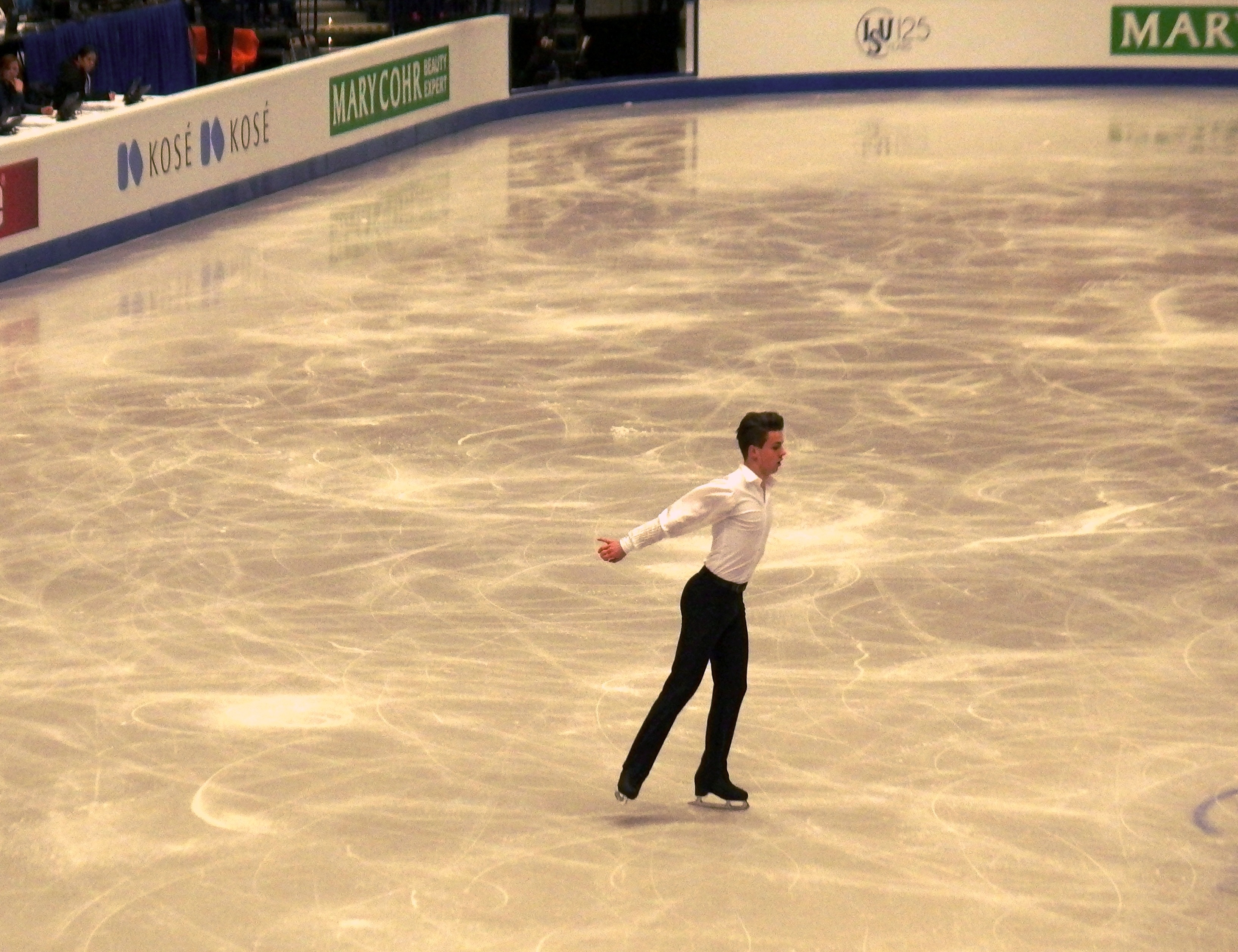 Ostrava, Czech Republic, Ostravar Arena. 2017 European Figure Skating Championships.